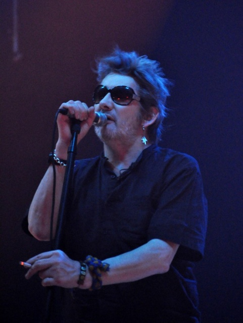 Shane MacGowan, Munich 06.07.2011